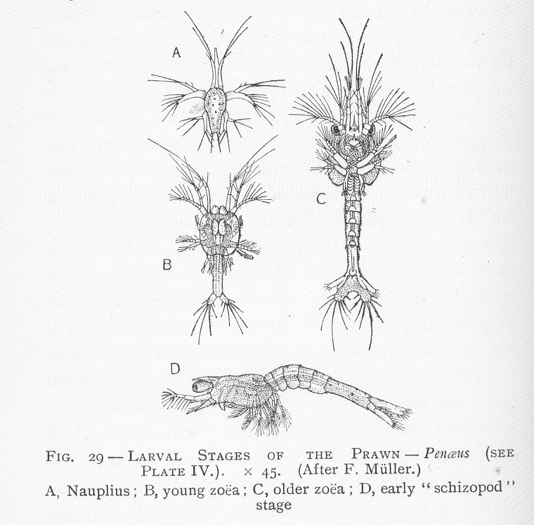 Larval Stages of the Prawn -- Penaeus sp. A, Nauplius; B, young zoea; C, older zoea; D, early 'schizopod' stage Subject: Shrimps, Penaeus Tag: Shellfish